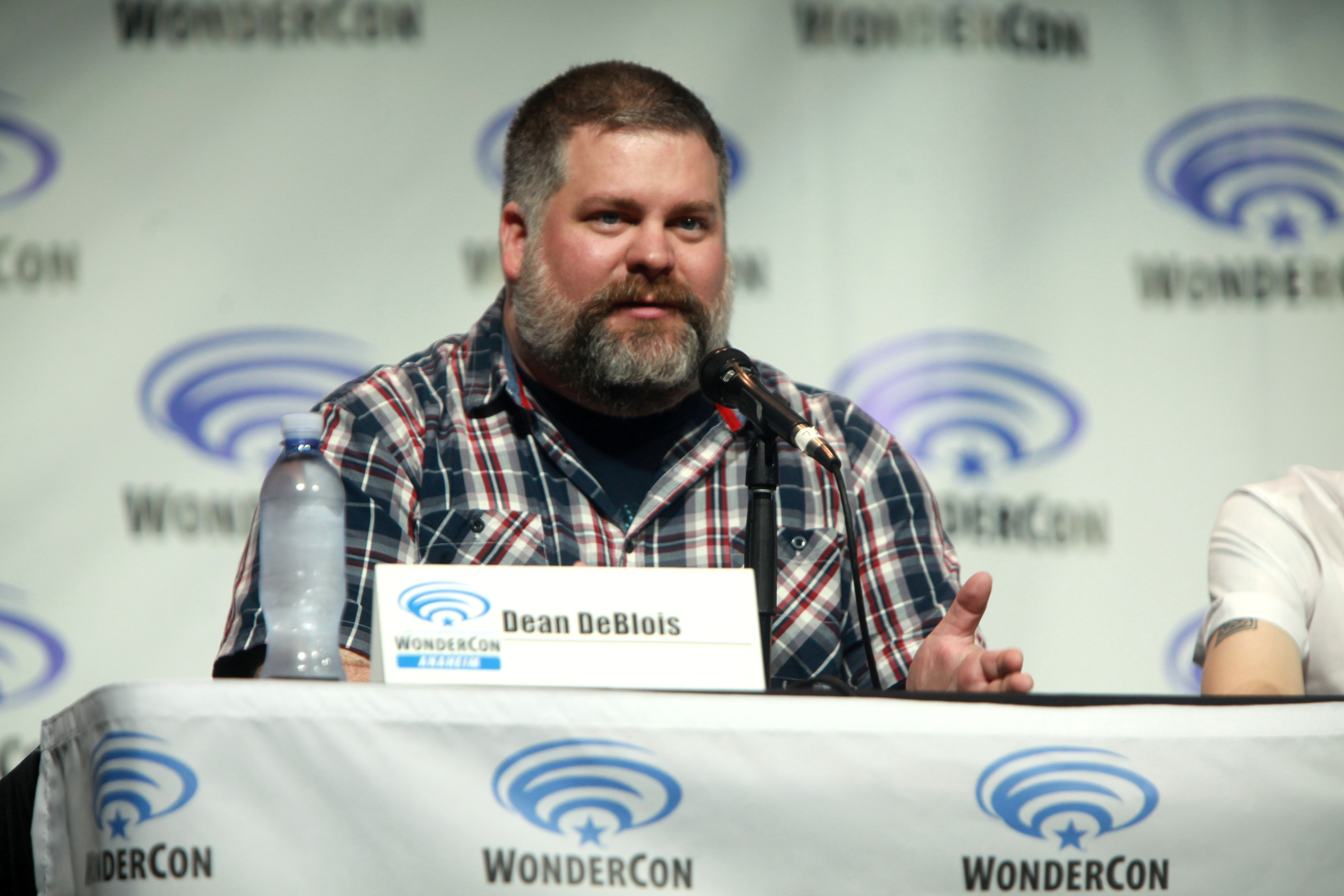 Dean DeBlois speaking at the 2014 WonderCon, for "How to Train Your Dragon 2", at the Anaheim Convention Center in Anaheim, California.